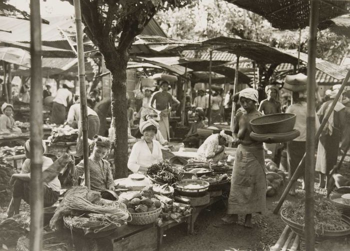 Market